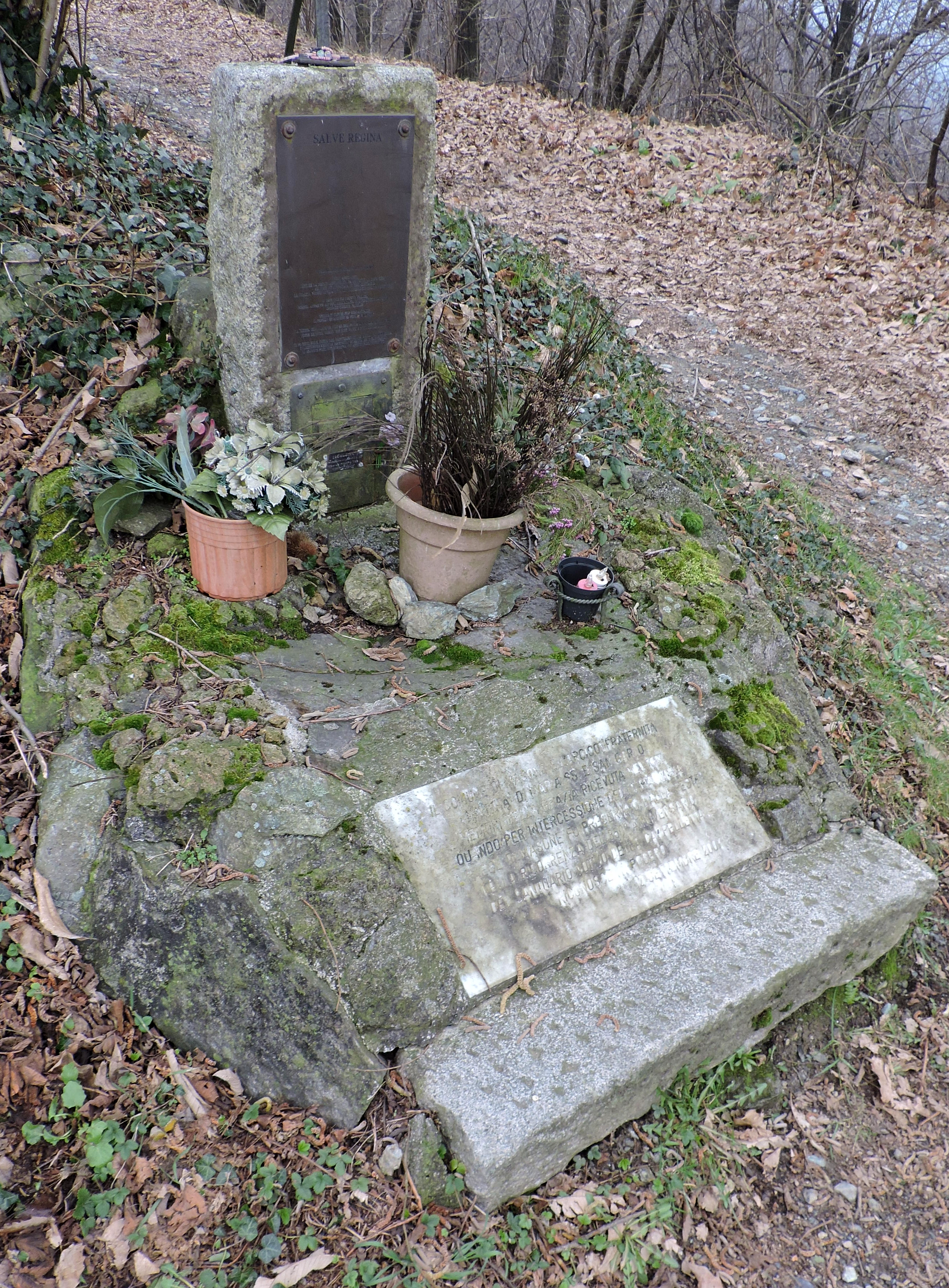 Masone: santuario della Cappelletta (GE, Italy): the place of Virgin apparition in XVII century